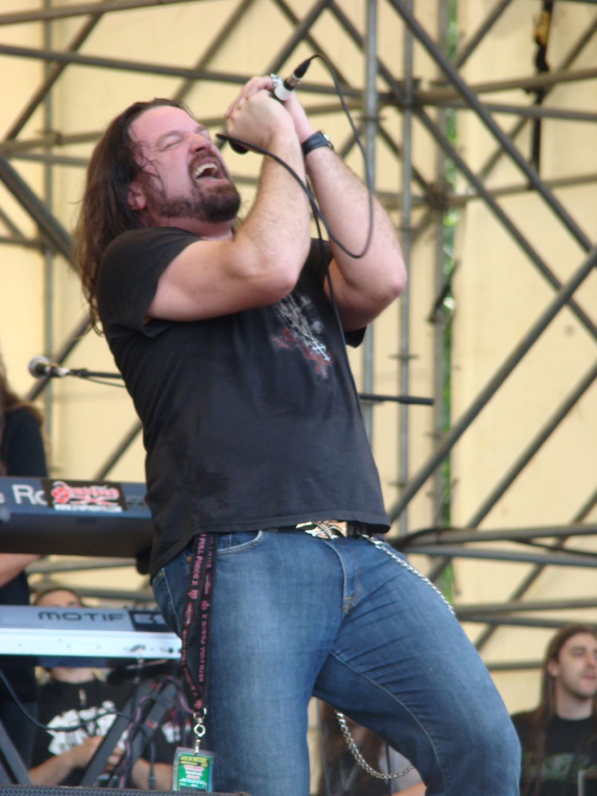 Russel Allen of Symphony X live photo from Novara, ITALY